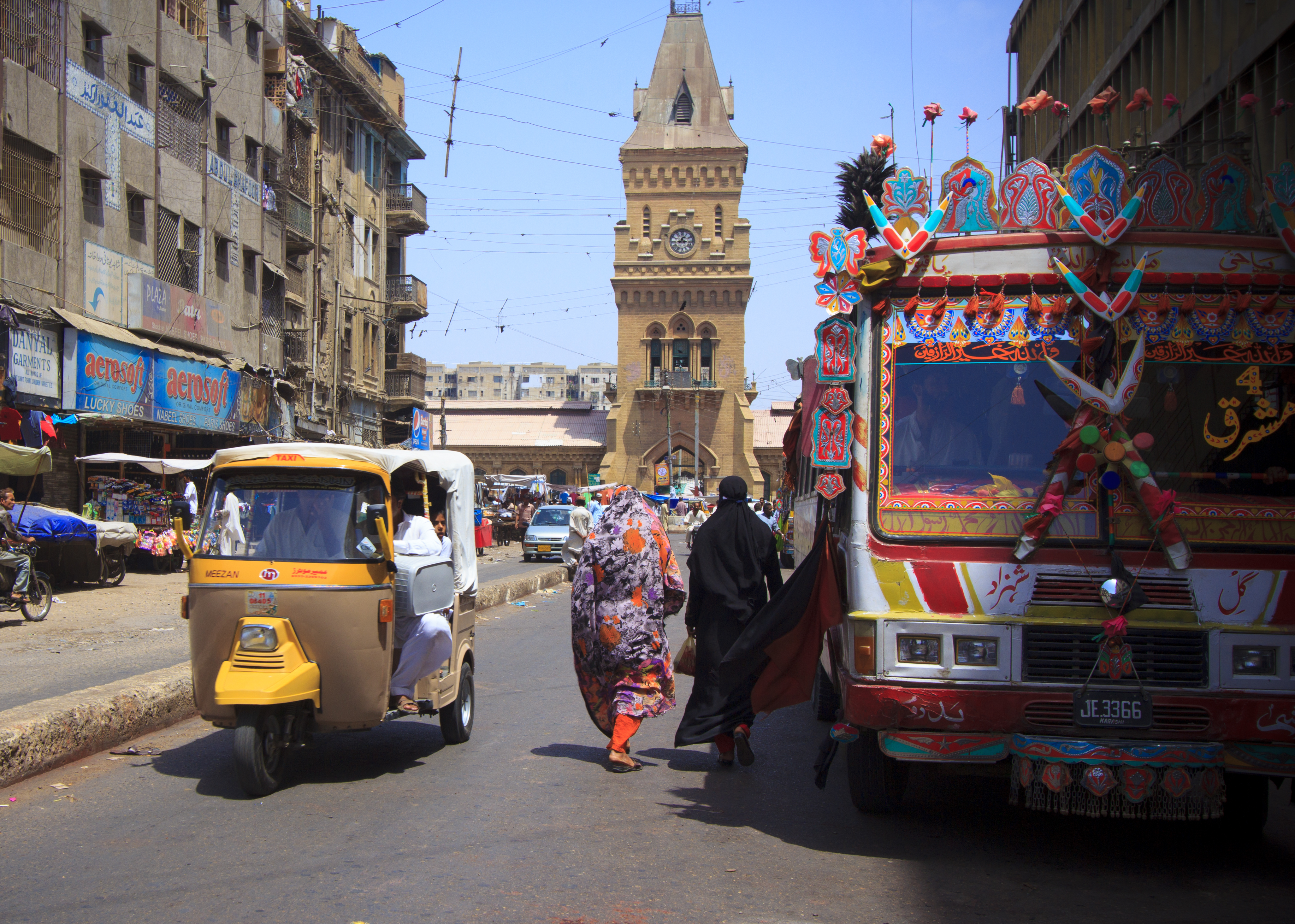 Empress Market This is a photo of a monument in Pakistan identified as the SD-P-175